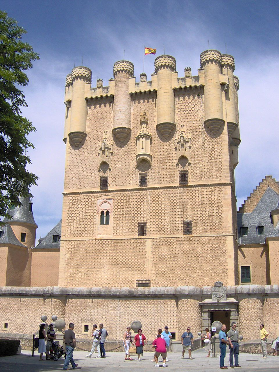 Photo taken in Segovia 2005. with HP 370 camera.